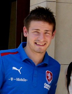 Czech football player Václav Pilař during Euro 2012